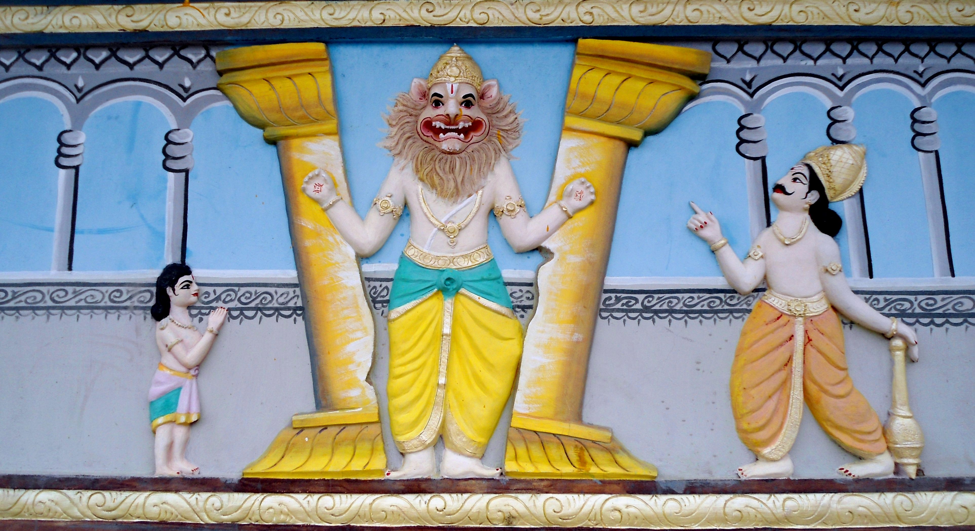 Lord Narasimha statue at Venkateswara Temple in Midhilapuri VUDA Colony, Visakhapatnam